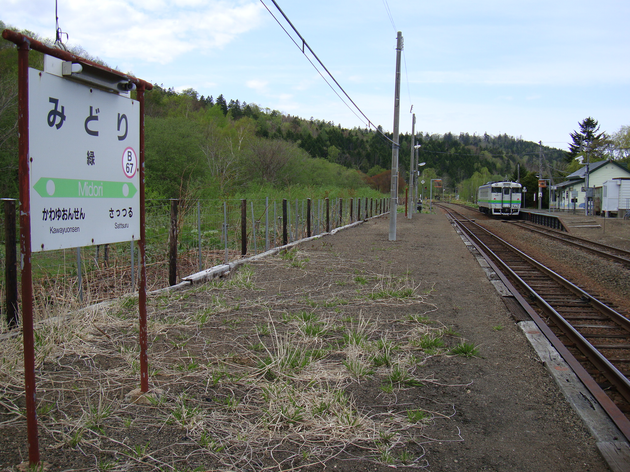 Midori Station